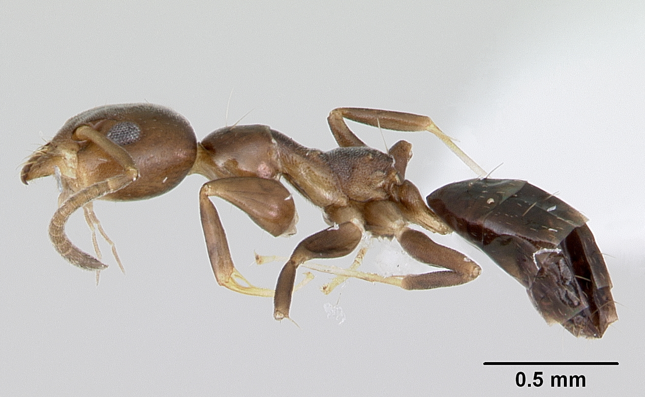 Profile view of ant Axinidris bidens specimen casent0403871.